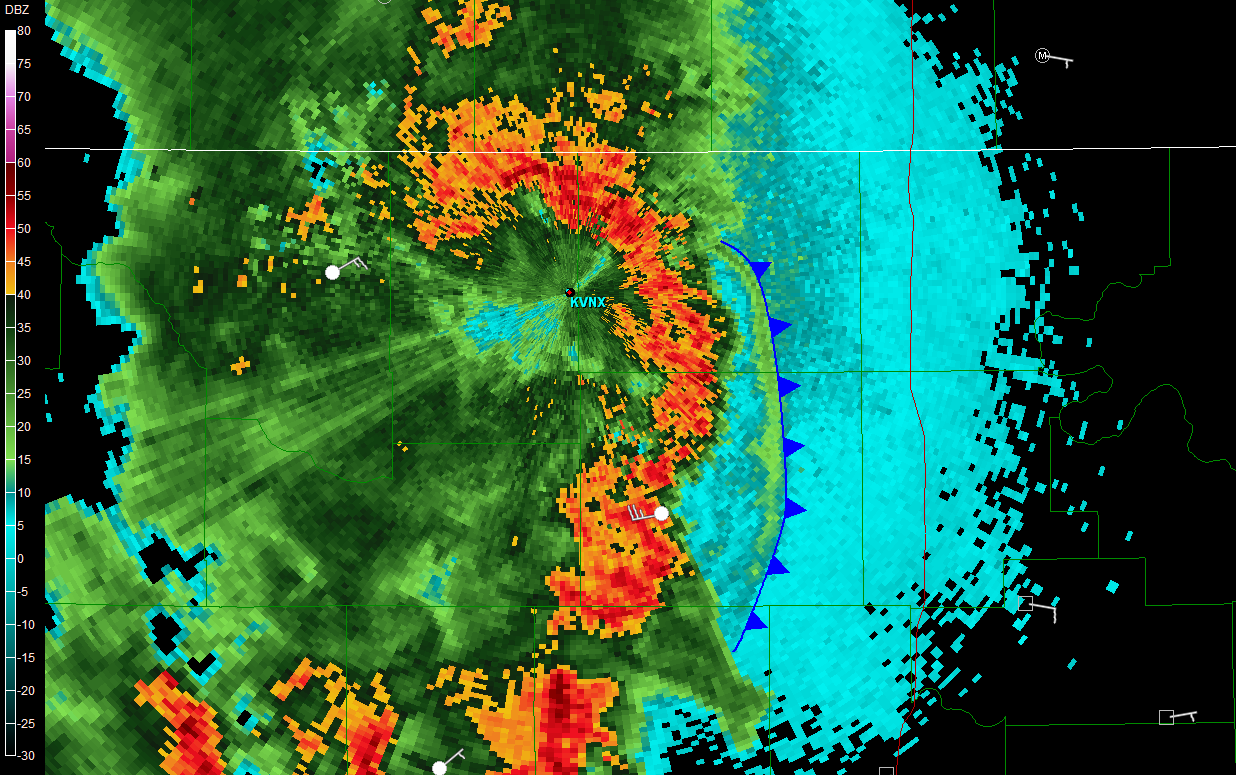 Outflow boundary as seen on radar reflectivity. The leading edge of the outflow is also a gust front in this particular case, depicted by the cold front symbol